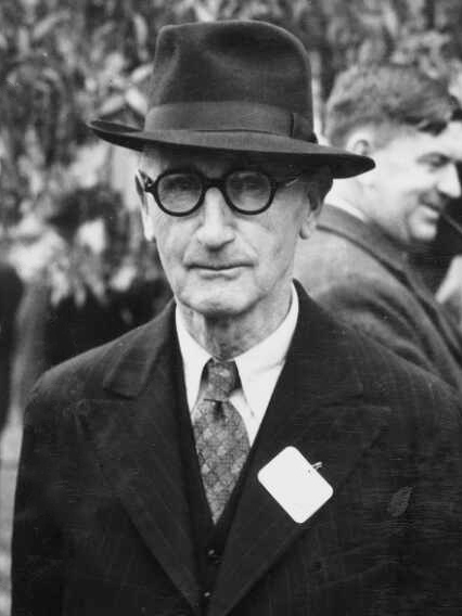 Scentist Dr Harry Howard Allan, photographed between 1956–1957. Location unknown. Photographer unidentified.